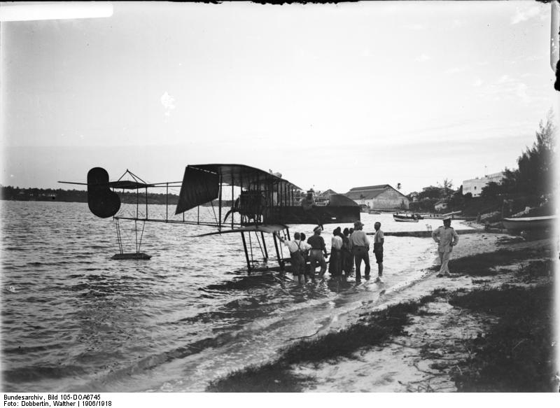 Otto / AGO